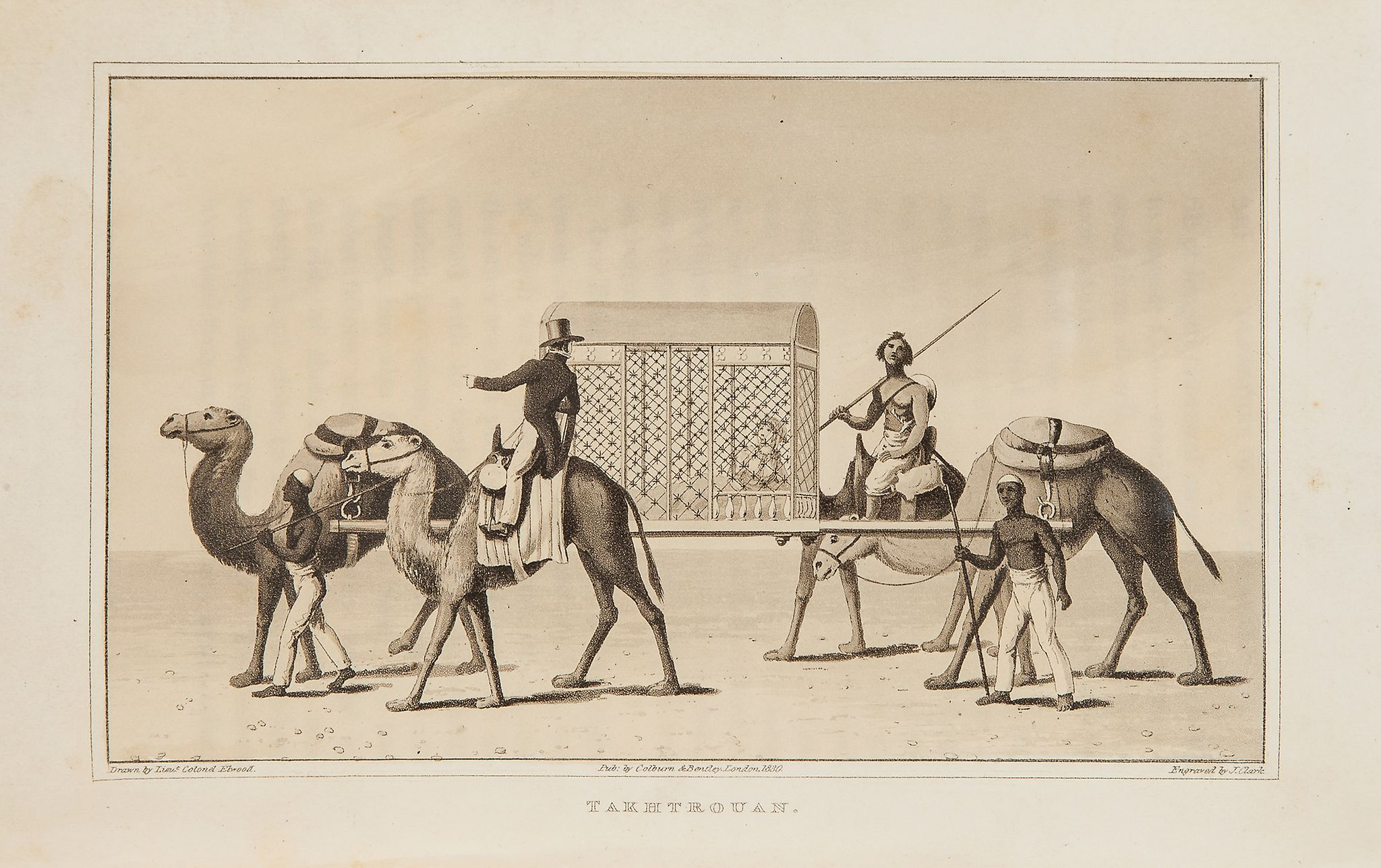 Anne Katherine Elwood Narrative of a Journey Overland from England Narrative of a Journey Overland from England